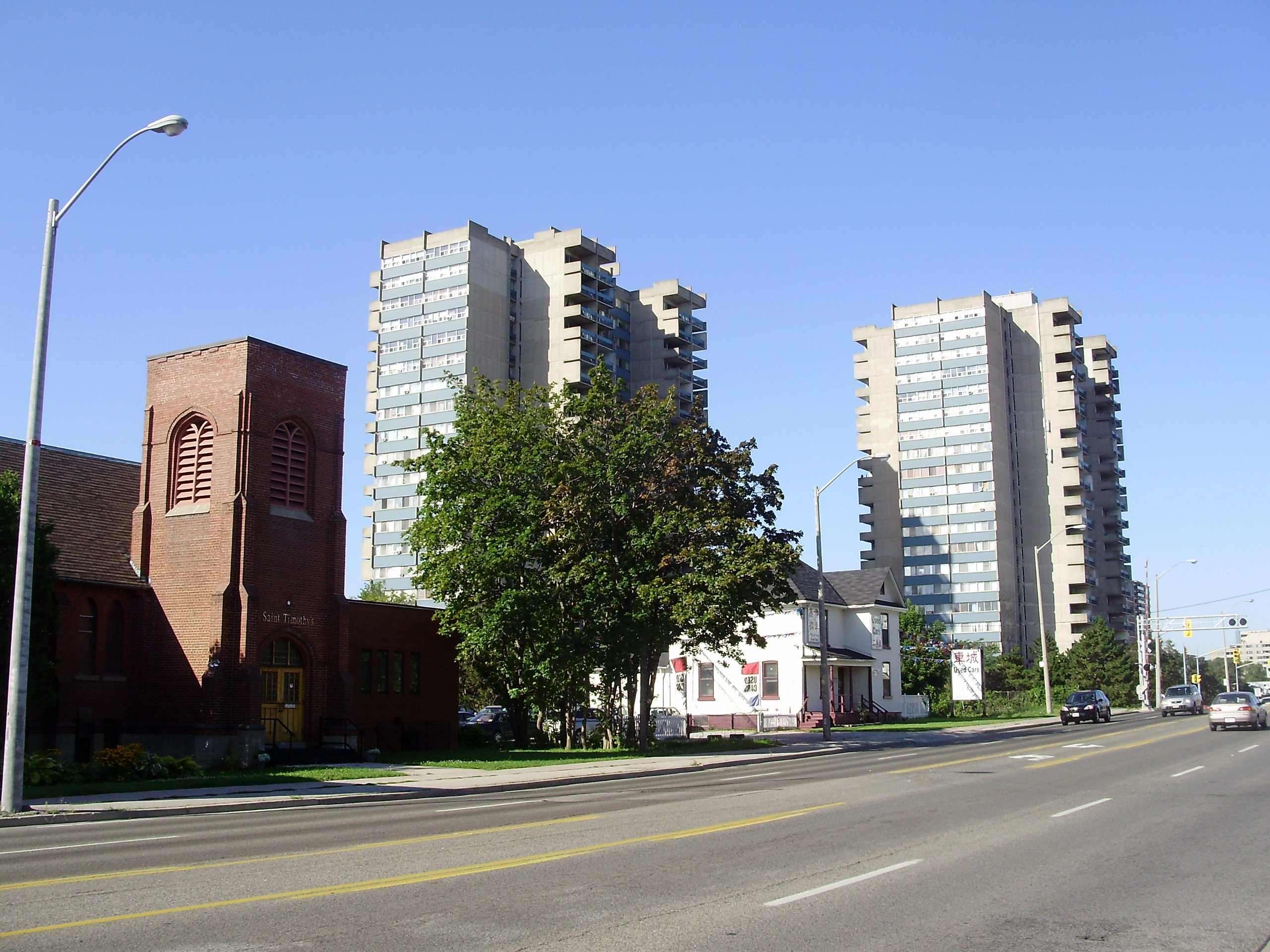 Apartment towers rise along Sheppard Avenue East in the neighbourhood of Agincourt in Scarborough, Canada.